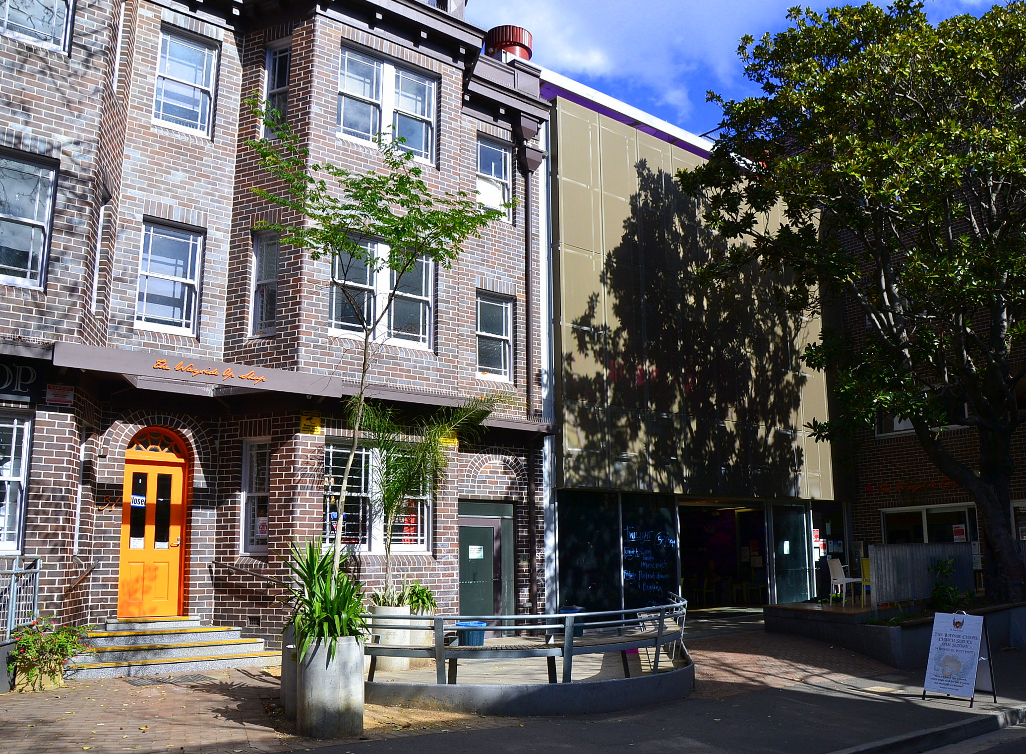 Wayside Chapel, Sydney